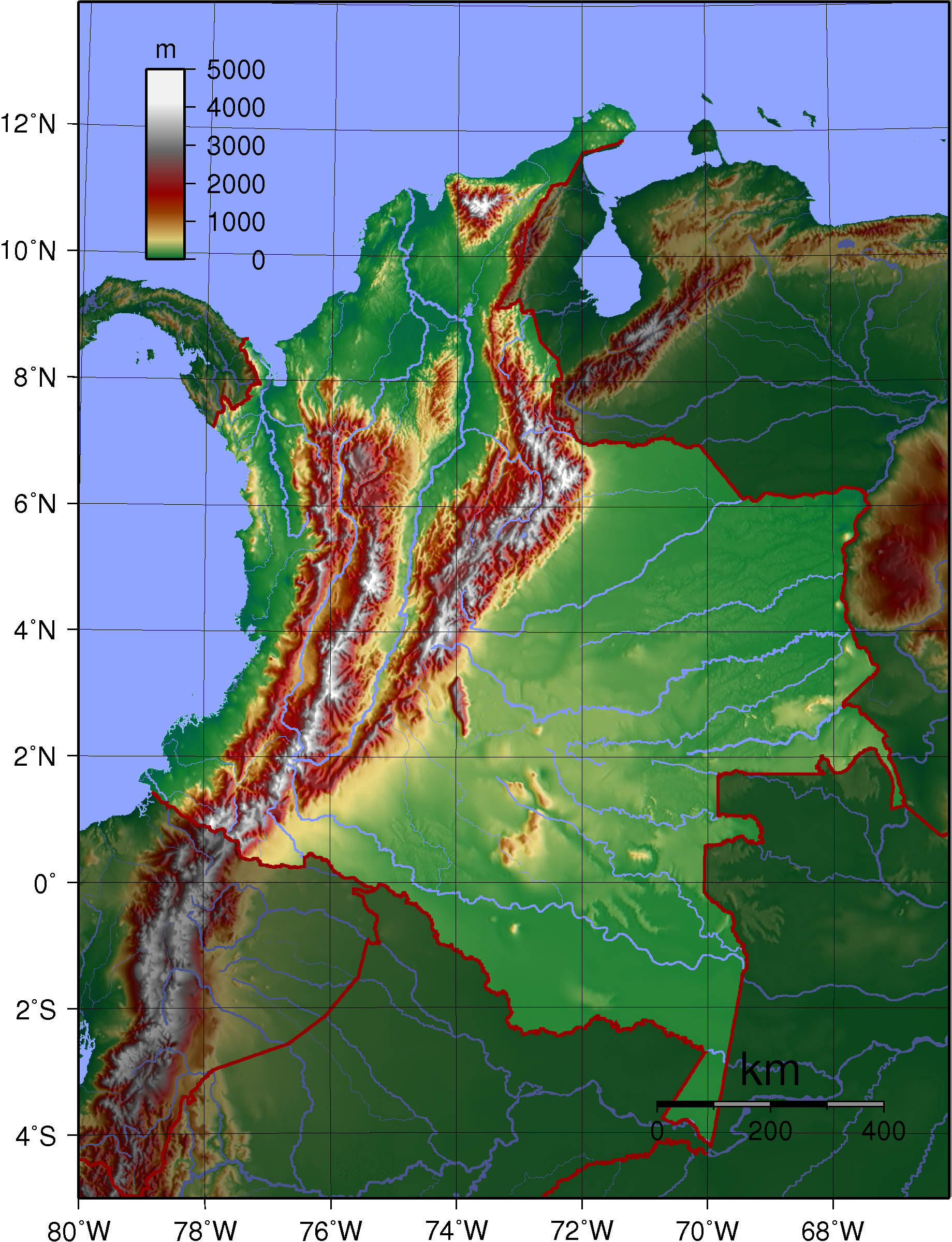 Topographic map of Colombia. Created with GMT from publicly released GLOBE data.[1]